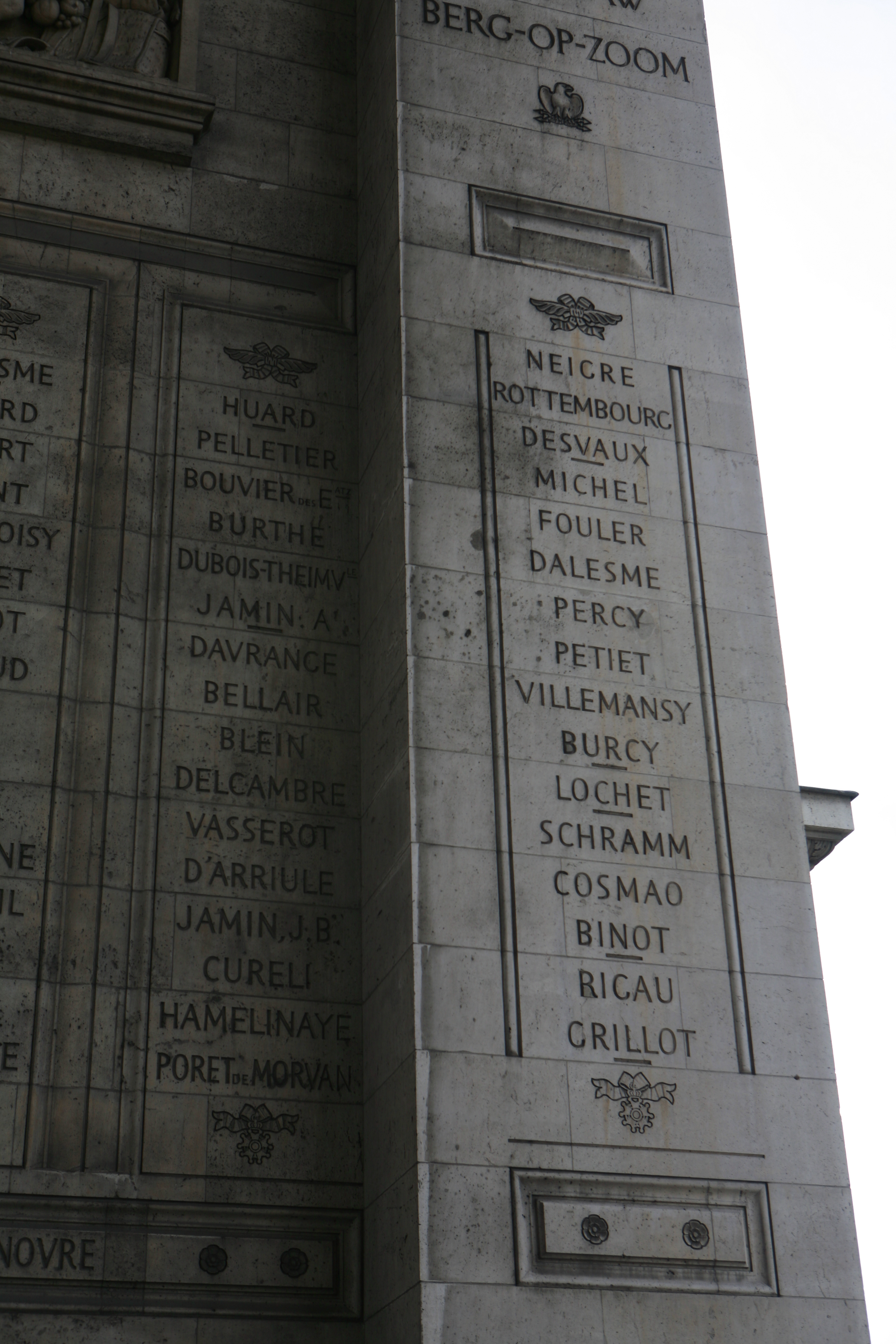 Details of the Arc de Triomphe. Northern pillar, Columns 9, 10